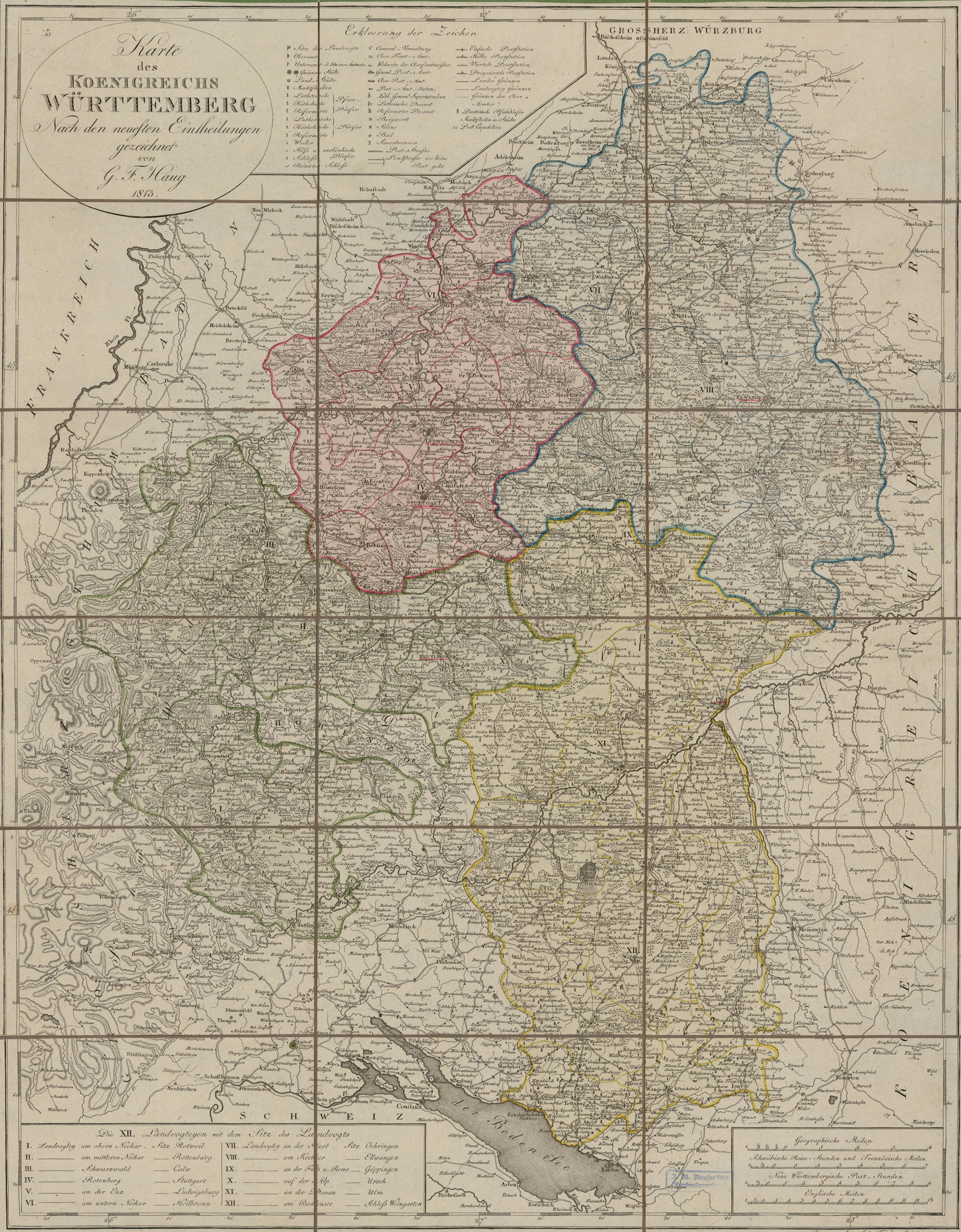 Map of the Kingdom of Württemberg by Gottlob Friedrich Haug, Stuttgart, 1813 e-rara.ch is a national collaborative project forming part of the Swiss innovation and cooperation programme E-lib.ch: Swiss Electronic library. It is sponsored by the Swiss University Conference (SUC) and the ETH Board. Terms and conditions This PDF file is freely available for non-commercial use in teaching, research and for private purposes. It may be passed to other persons together with these terms and conditions and the proper indication of origin.